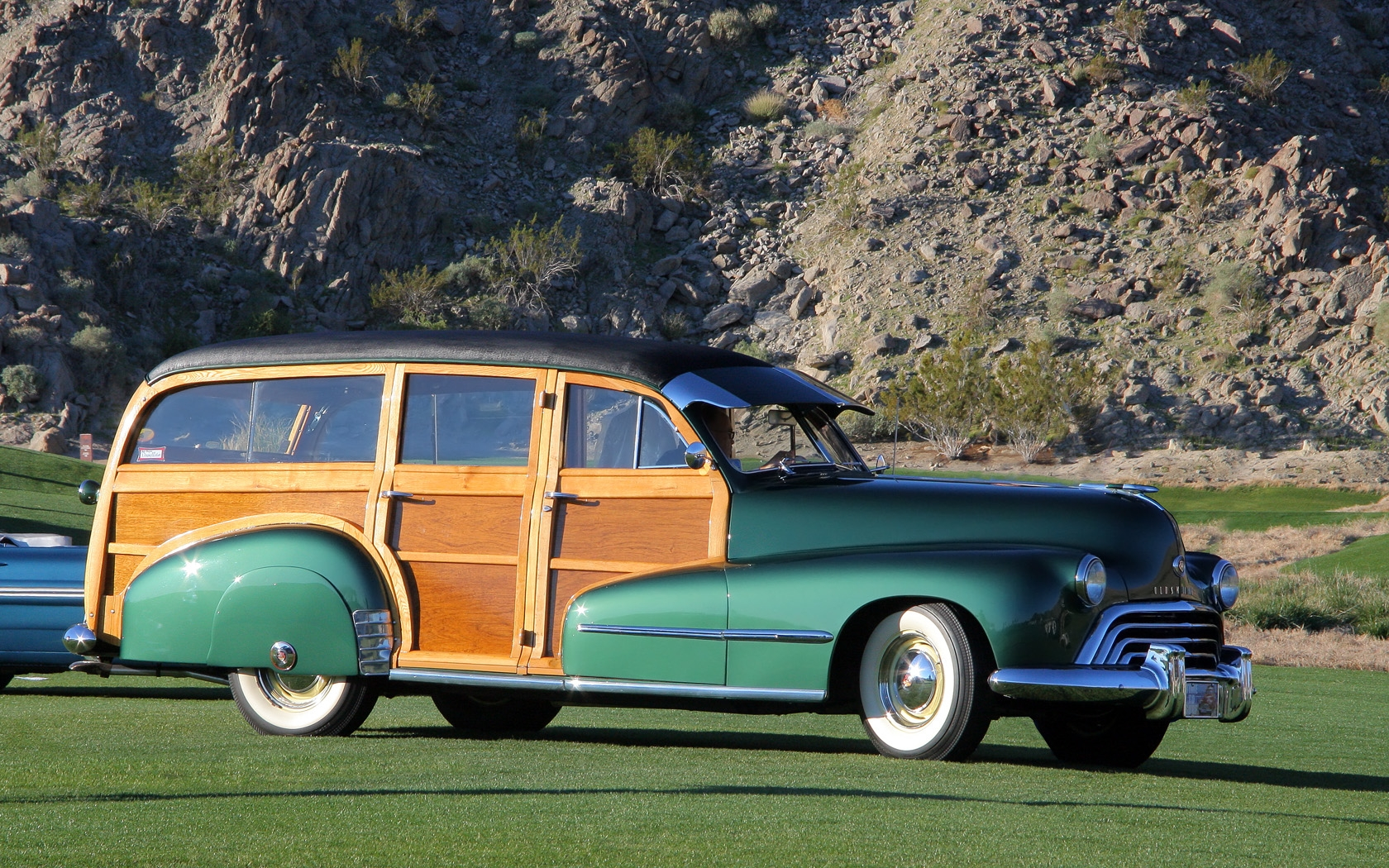 1948 Oldsmobile 66 Series Woodie at 2011 Desert Classic, La Quinta, CA